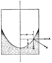 In Fig 409 the particle of water the free surface of the rotating vessel at distance x from the center is moving with a velocity xw...